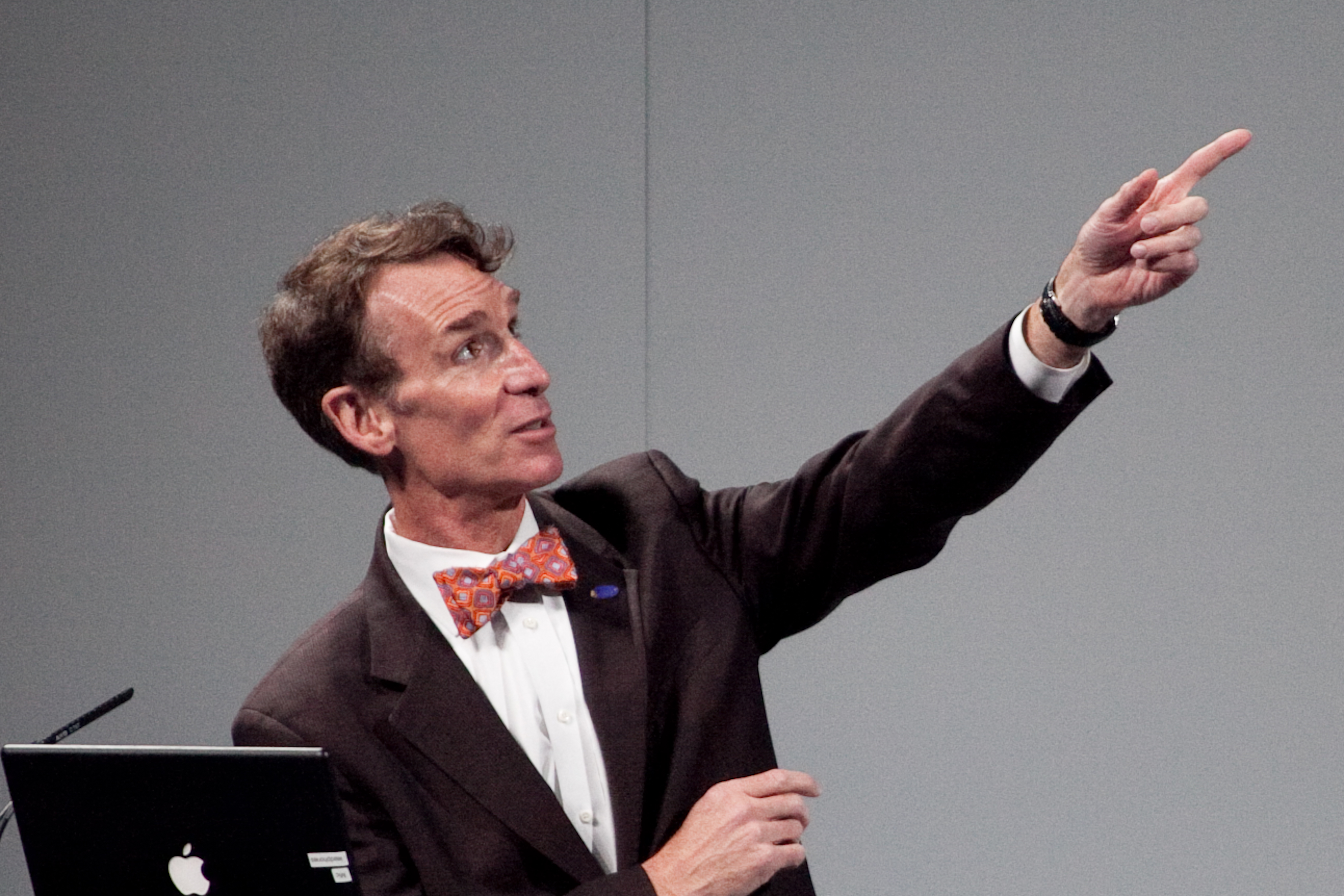 Bill Nye the Science Guy at The UP Experience 2010. Note: this photo is Creative Commons Attribution. You are welcome to use it with "photo by Ed Schipul"